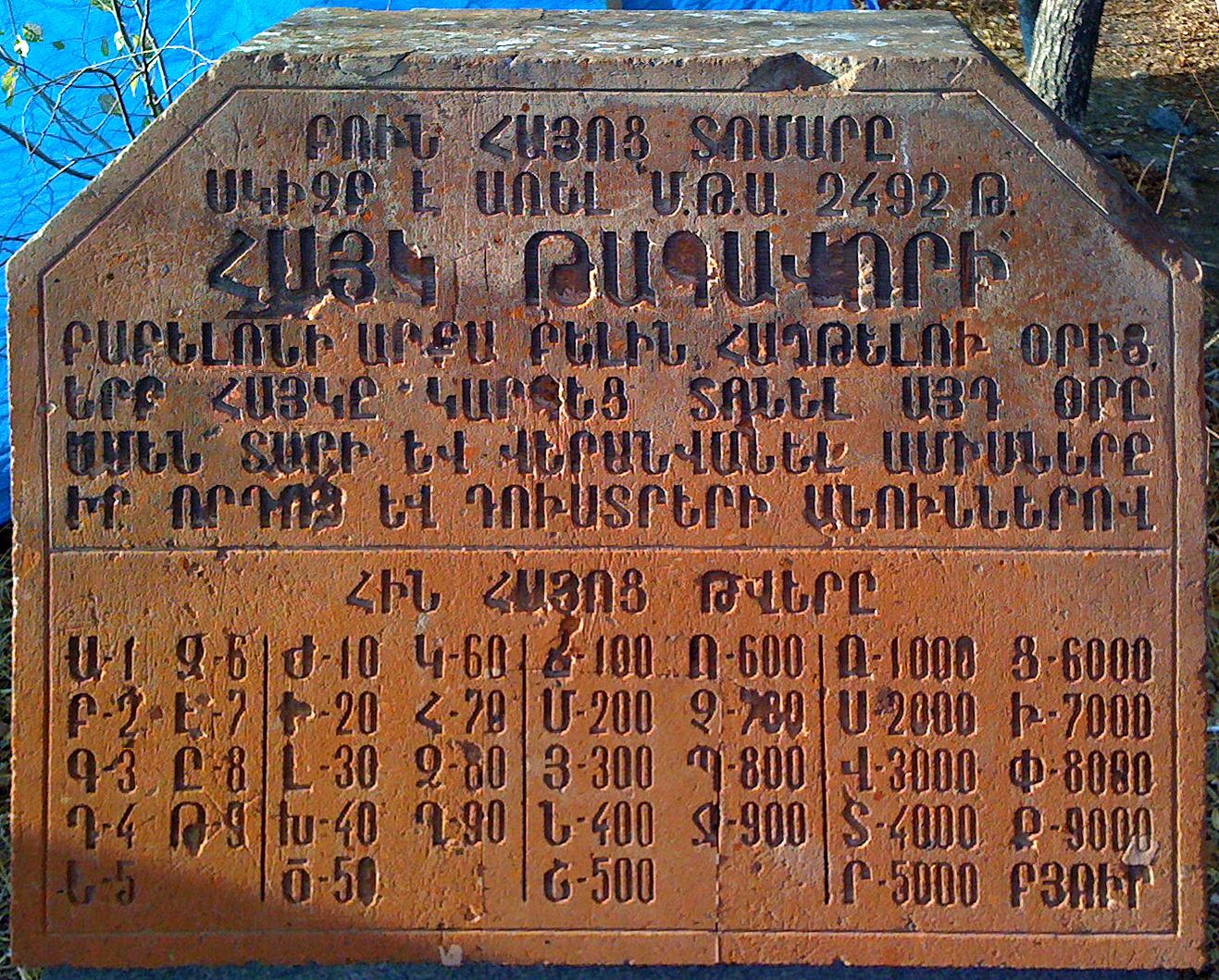 Ancient Armenian Sun Moon and Star dial. Tomar. Reconstructed by academician Paris Herouni, Yeravan, Armenia